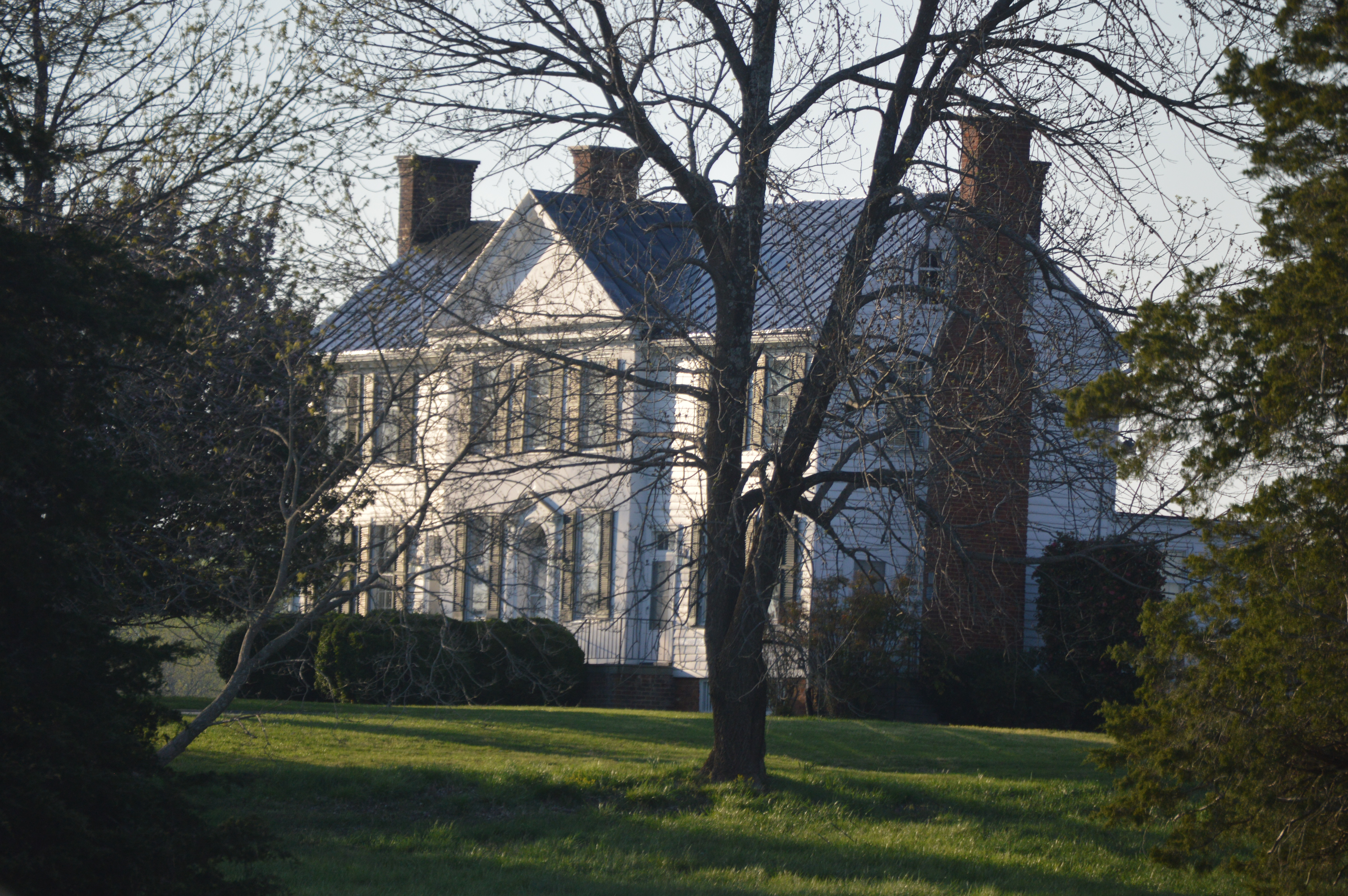 Front of Woodbourne, located on Gumtree Road in Forest, Virginia, United States. Built in 1785 and later expanded, it is listed on the National Register of Historic Places.